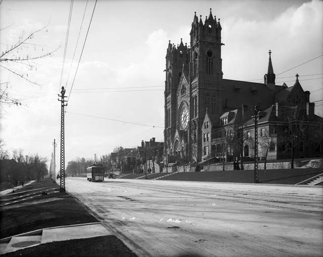 Salt Lake City's Roman Catholic Cathedral of the Madeline, 1908. A trolley car is to the left, on South Temple Street.